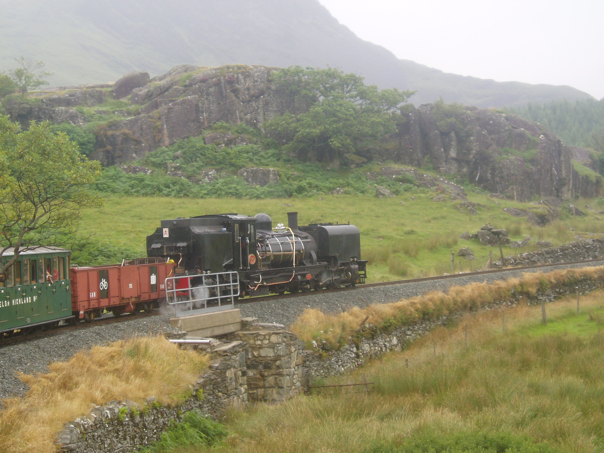 Welsh Highland Railway garratt (ex-South African Railways no 143) in the Welsh countryside. The open wagon behind the engine is for bikes.